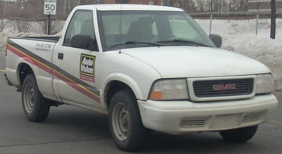 1998-2003 GMC Sonoma photographed in Montreal, Quebec, Canada.